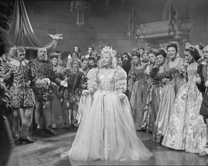 Yanina Zheymo as Cinderella in Cinderella (1947)